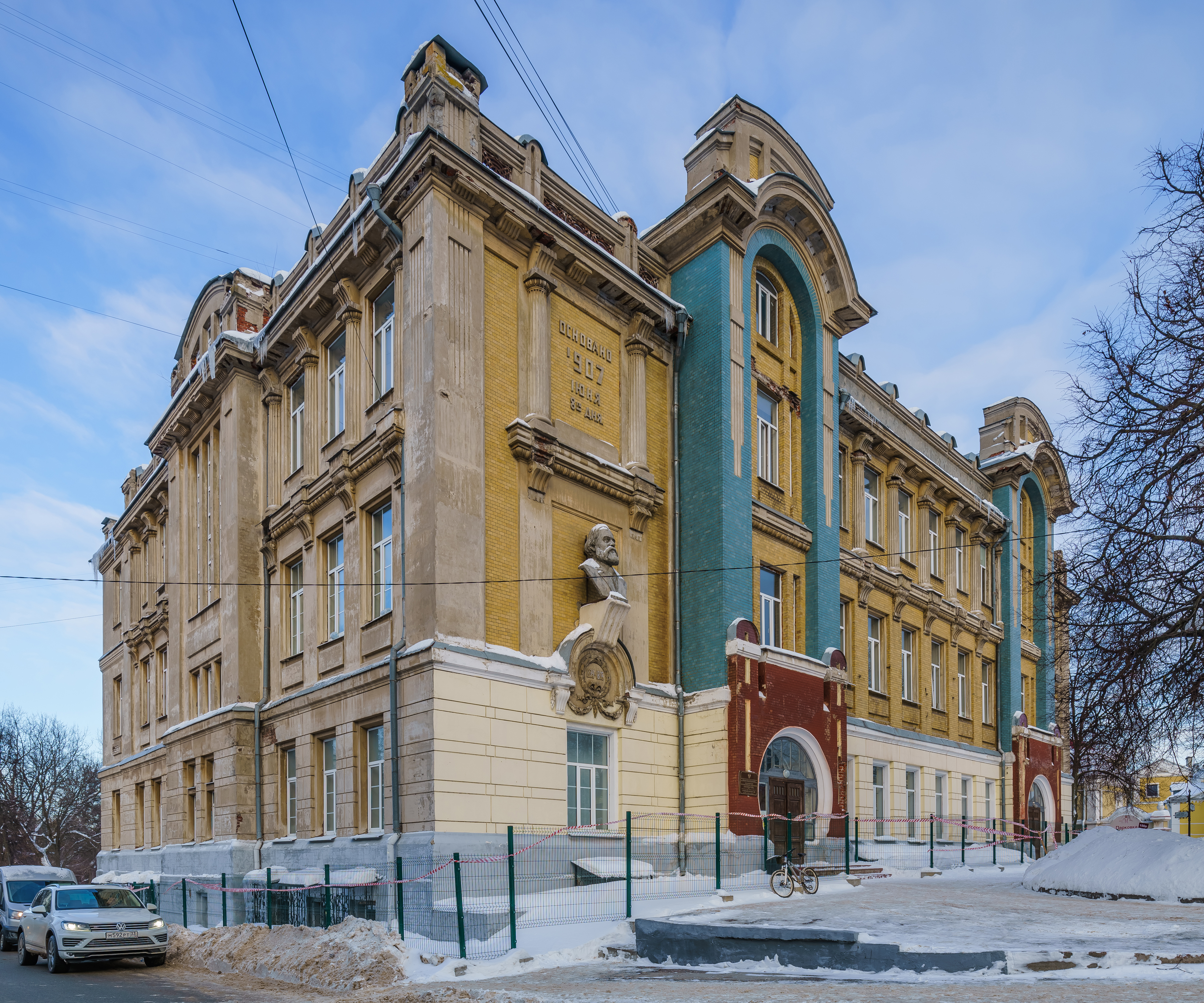 Building at Nikitskaya Street 1 in Vladimir, Russia